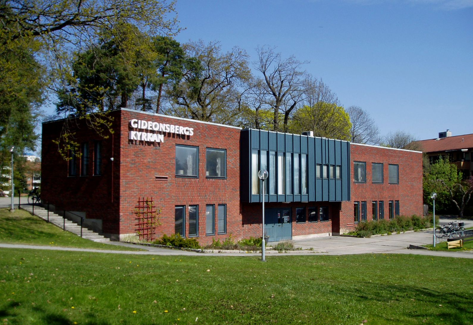 Church at Västerås, Sweden